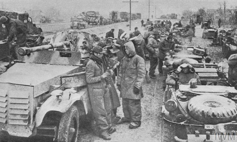 5 cm PaK 38 (Sf) auf Zugkraftwagen 1t with SS trucks and Schwimmwagens in Russia